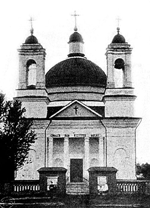 Non existent catholic church of the Holy Trinity in Čačersk